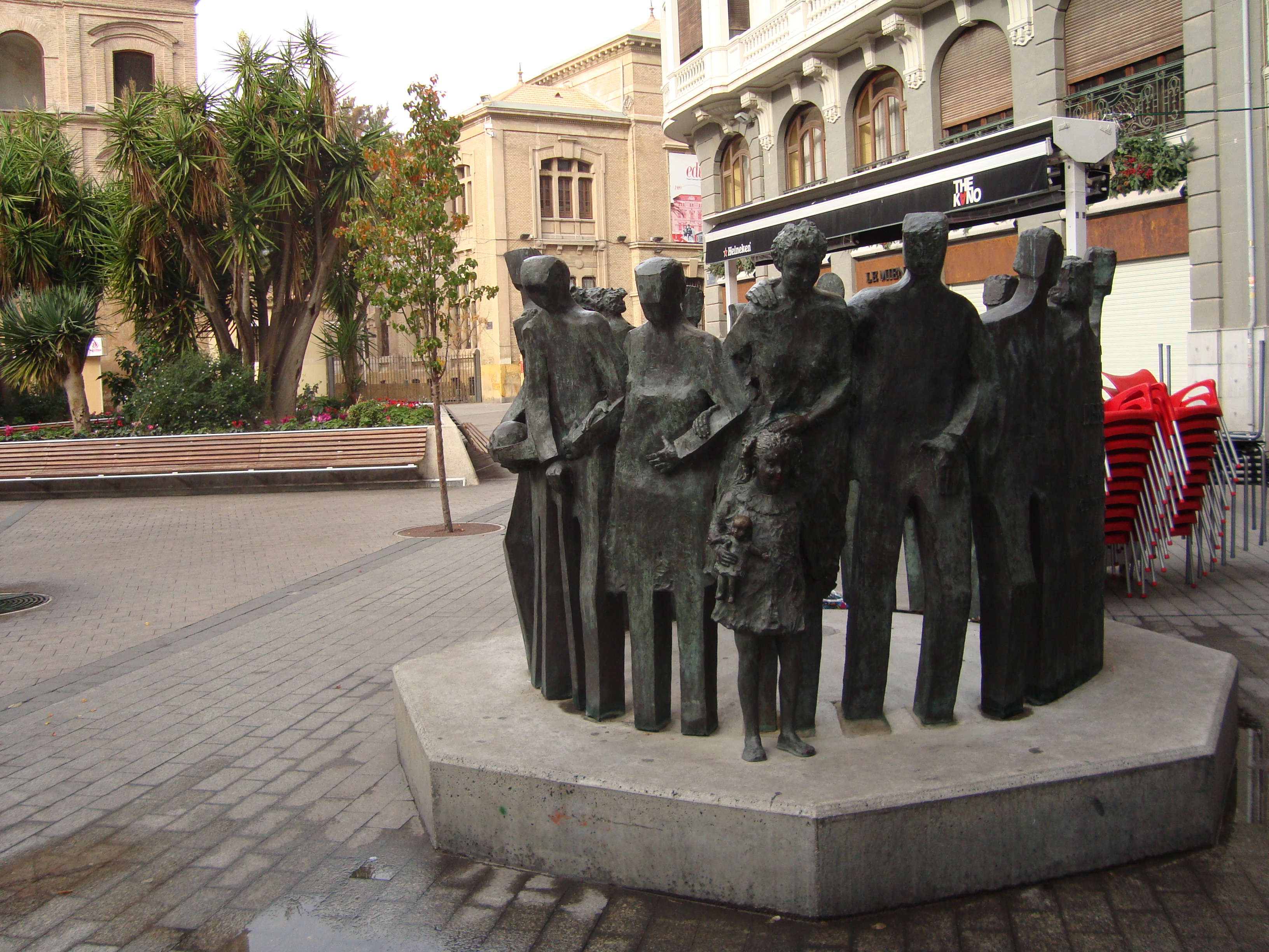 This scuplture was made by Mariano González Beltrán in 2003, is called "Monumento por los Derechos Humanos". It is situated in the "Plaza de Santo Domingo" (Murcia).